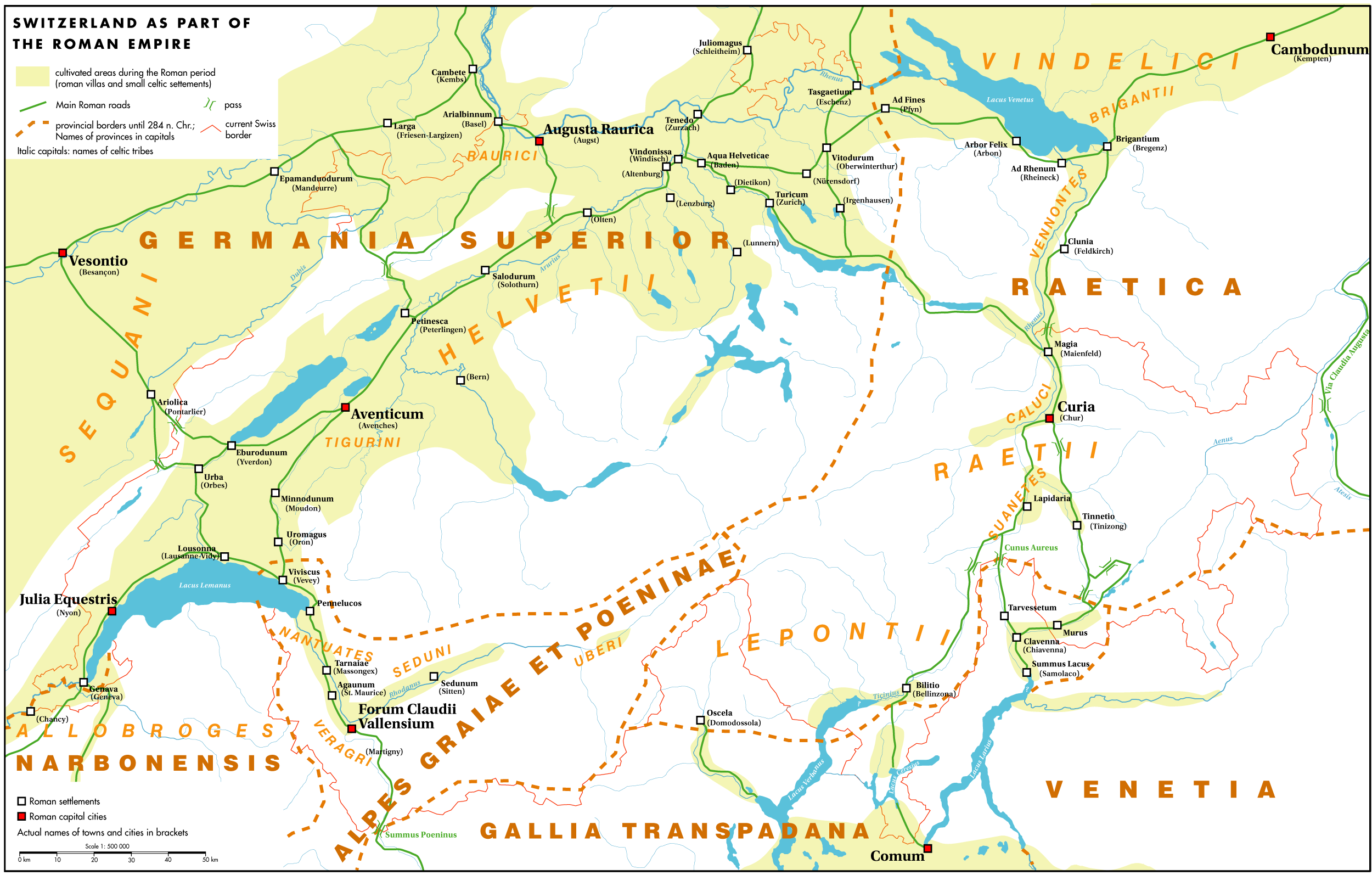 Switzerland during the Roman aera. Provincial borders between the years 90 and 284 after Christ (Diocletian's reform)